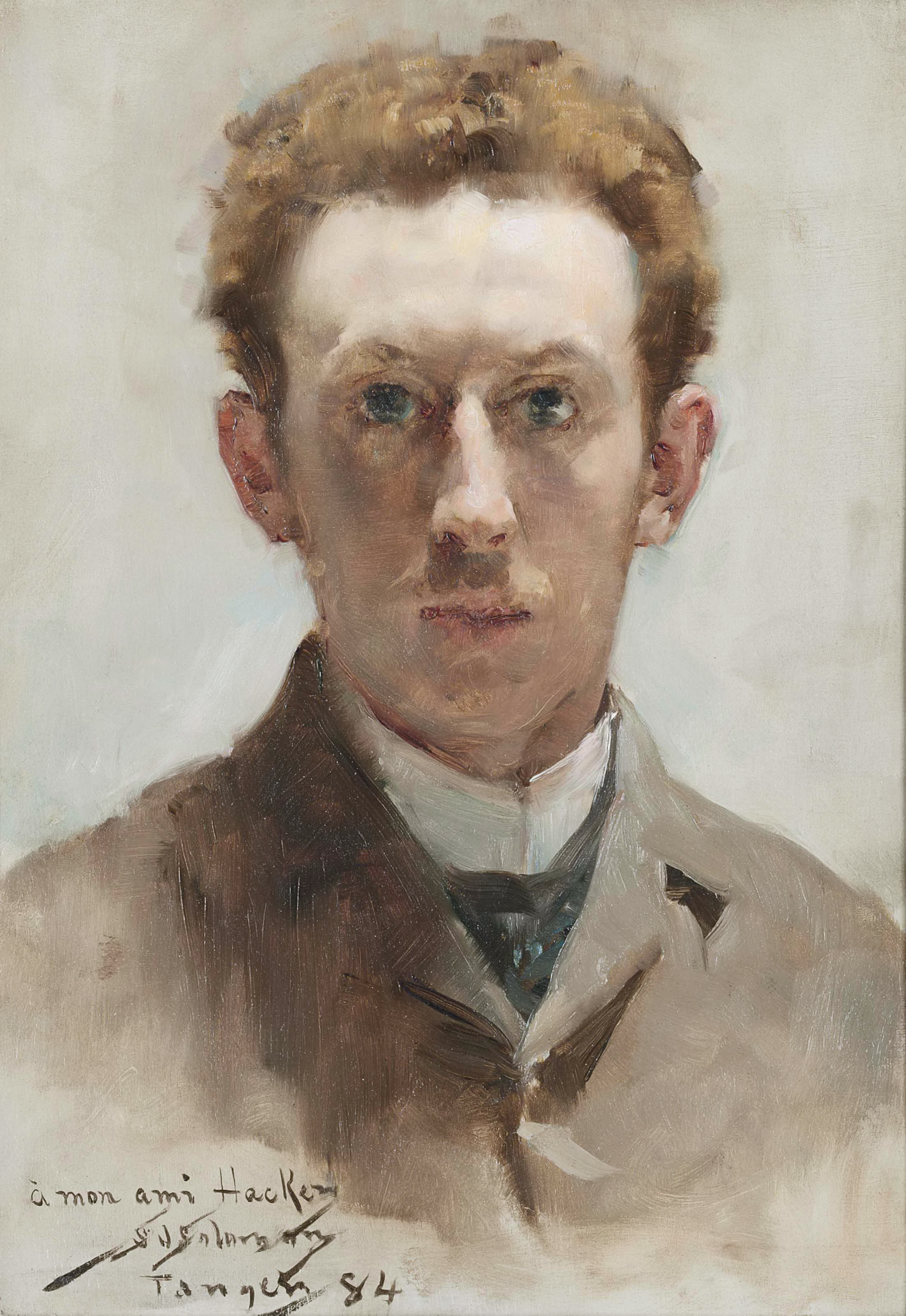 Arthur Hacker (1858-1919)